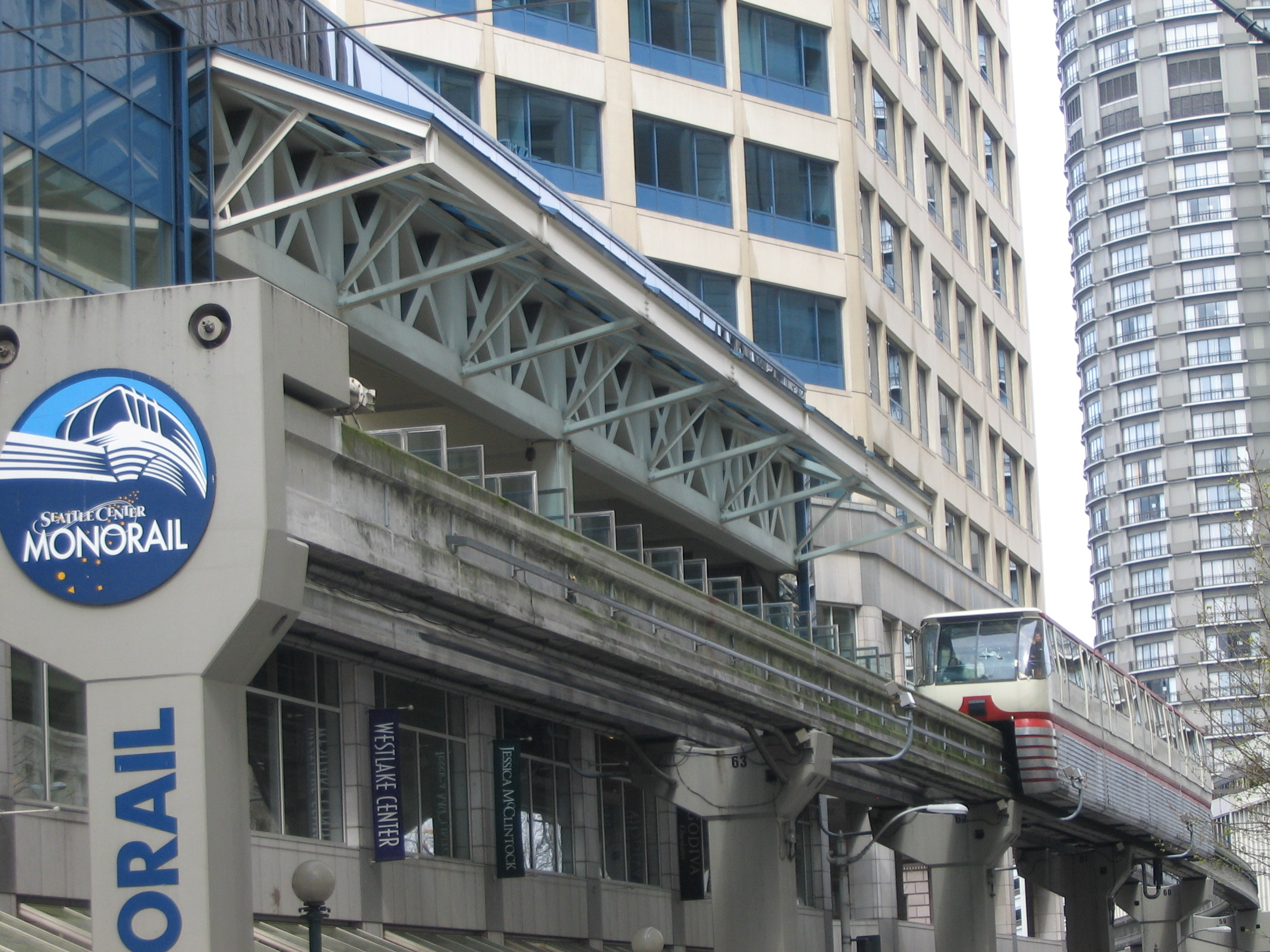 Seattle Center Monorail (near the Westlake Center Station)